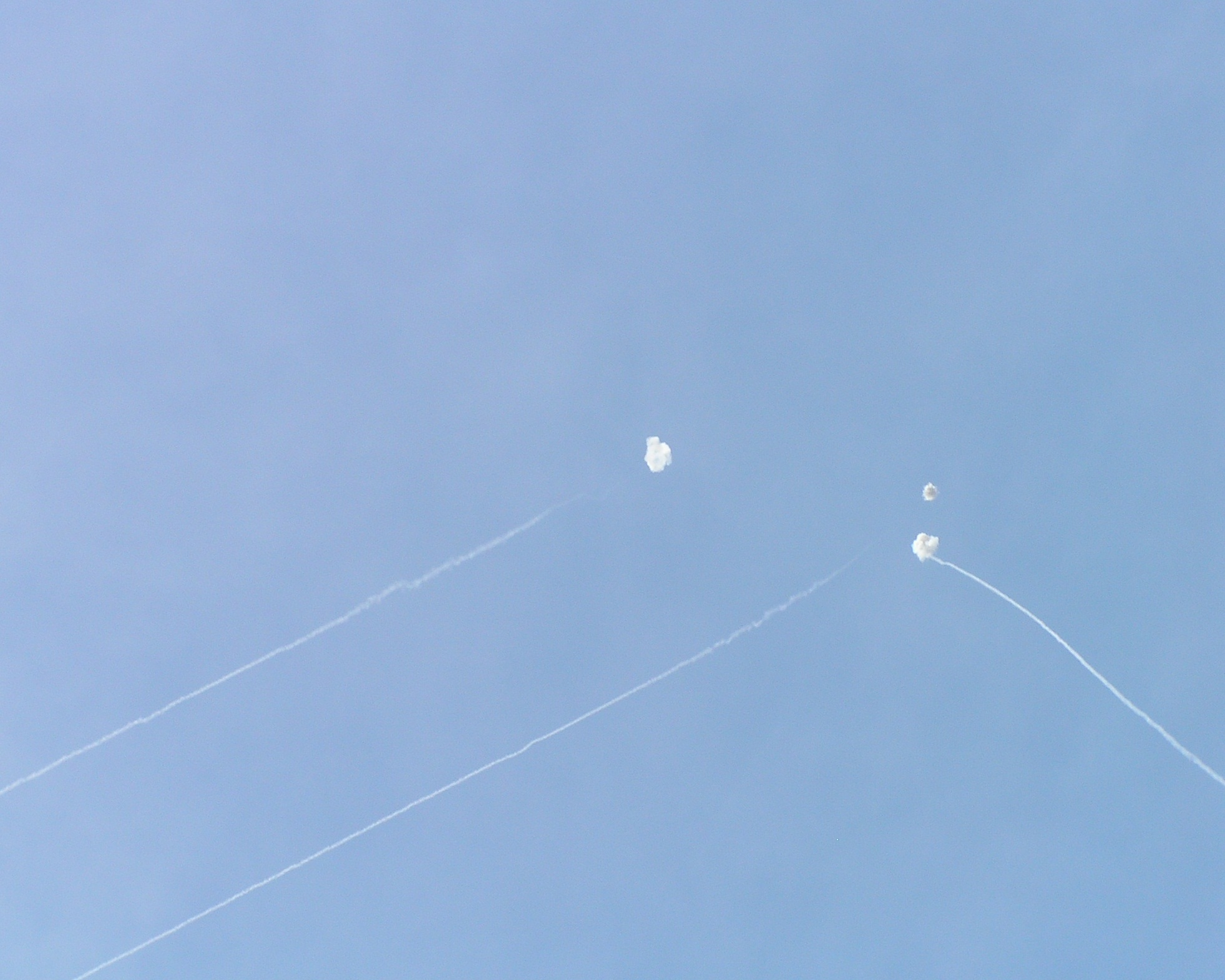 Iron Dome during "Operation Pillar of Cloud"